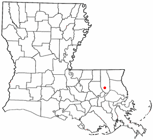 Map of Louisiana showing location of Ponchatoula